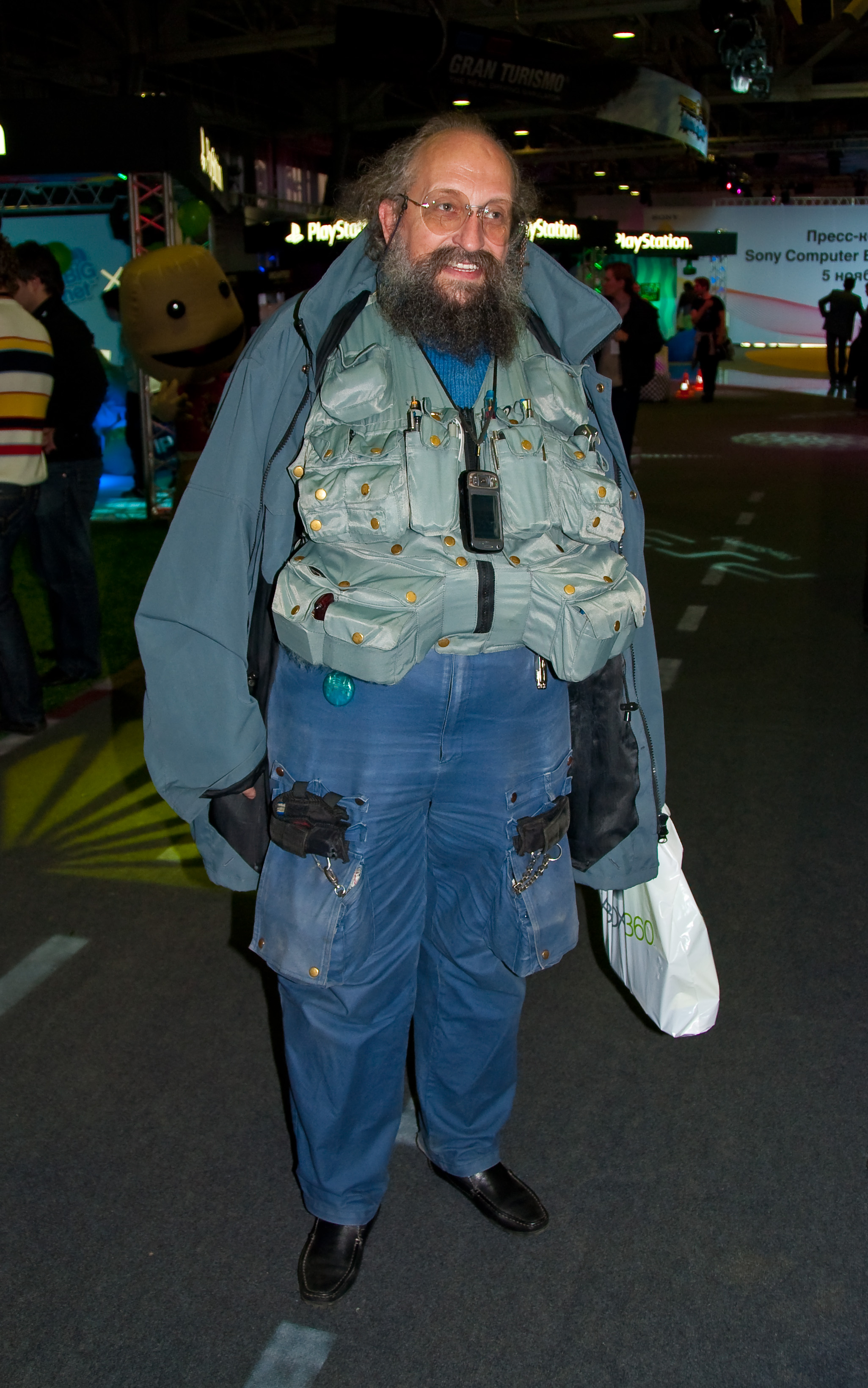 Anatoly Wasserman at IgroMir 2009